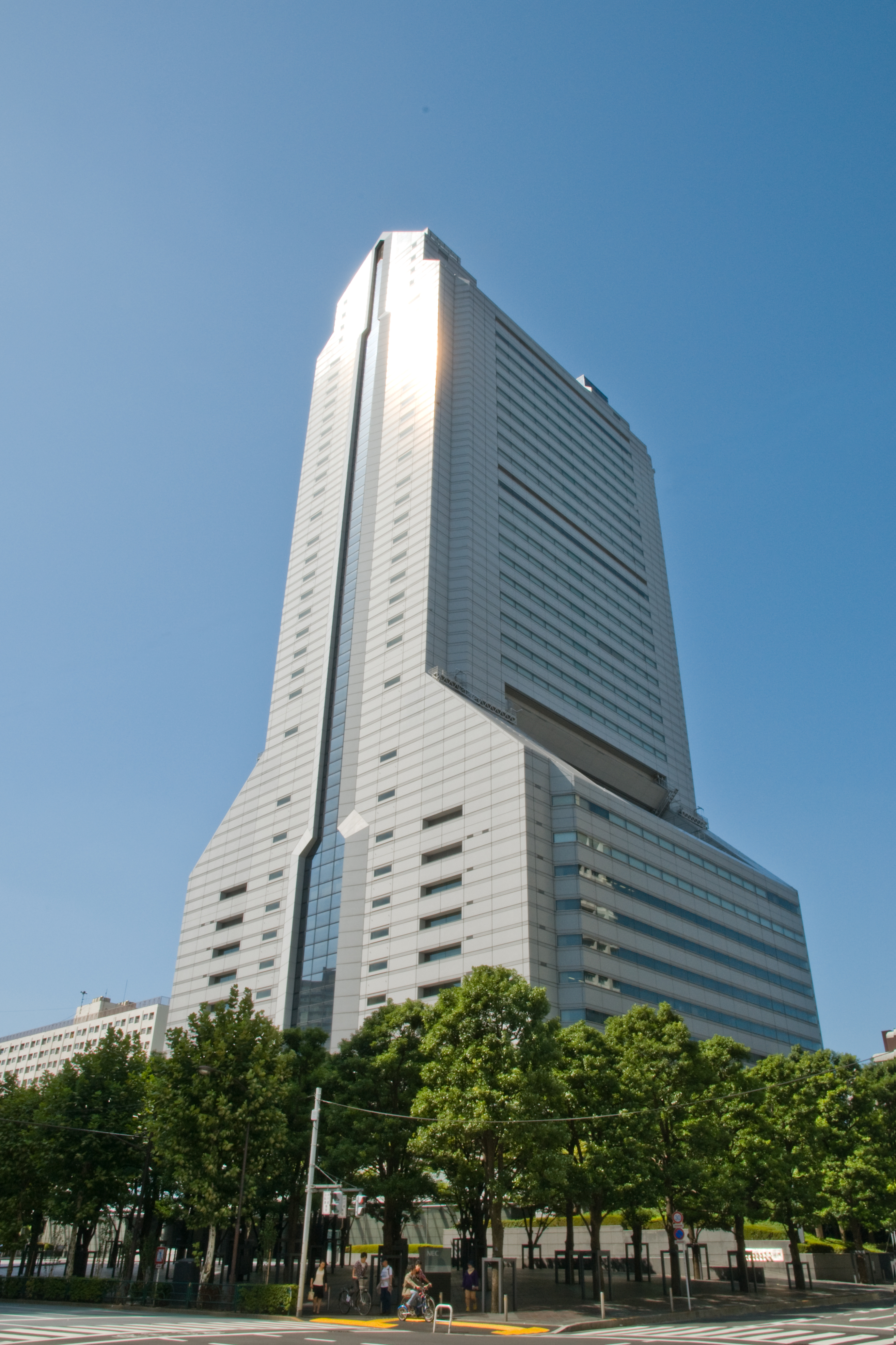 Main NEC Building